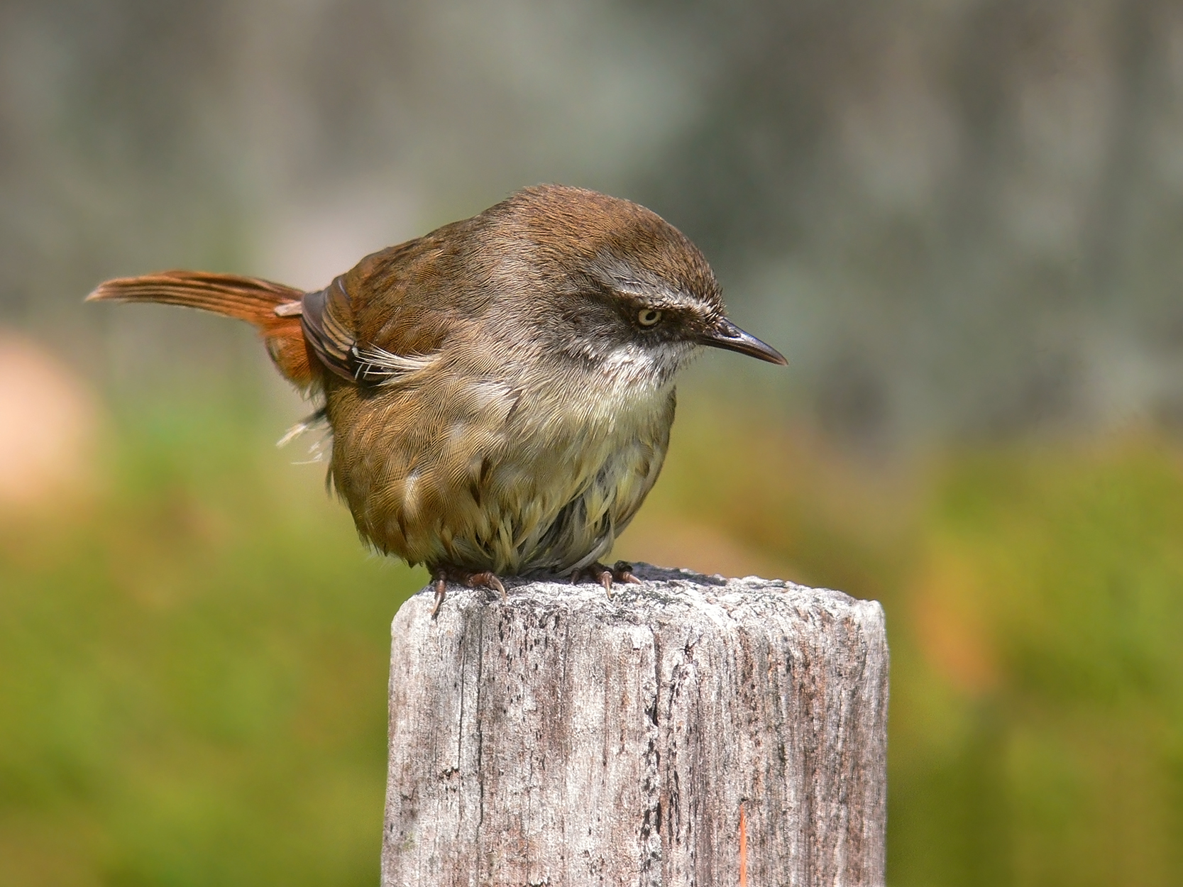 A White-browed Scrubwren female Sericornis frontalis peering around for her next meal, taken in South-eastern Australia.